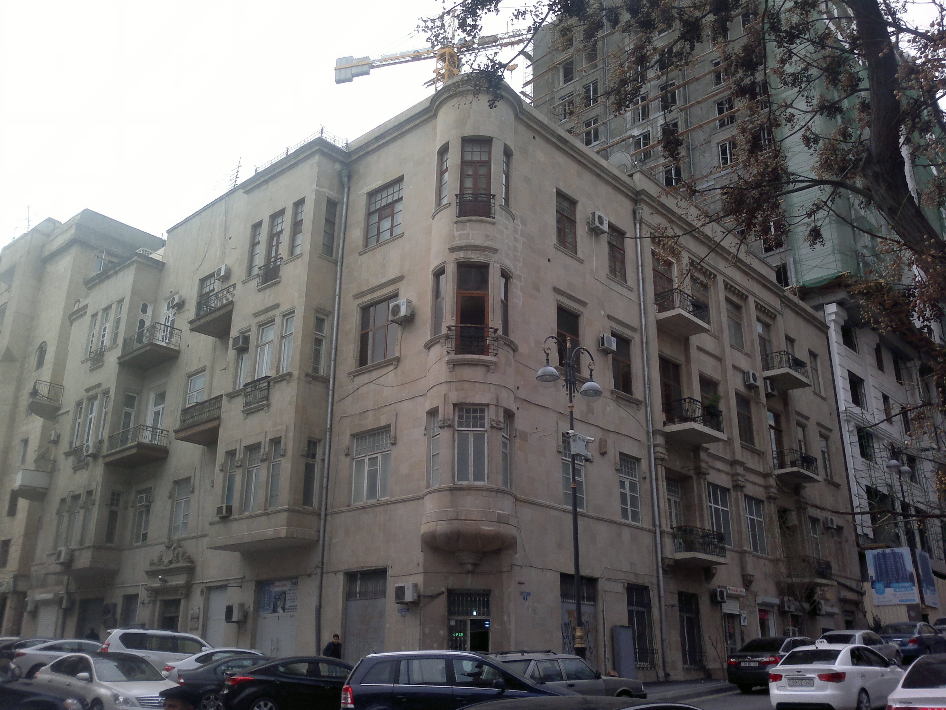 Building on Mehdi Huseyn Street 79. Built in 1912.